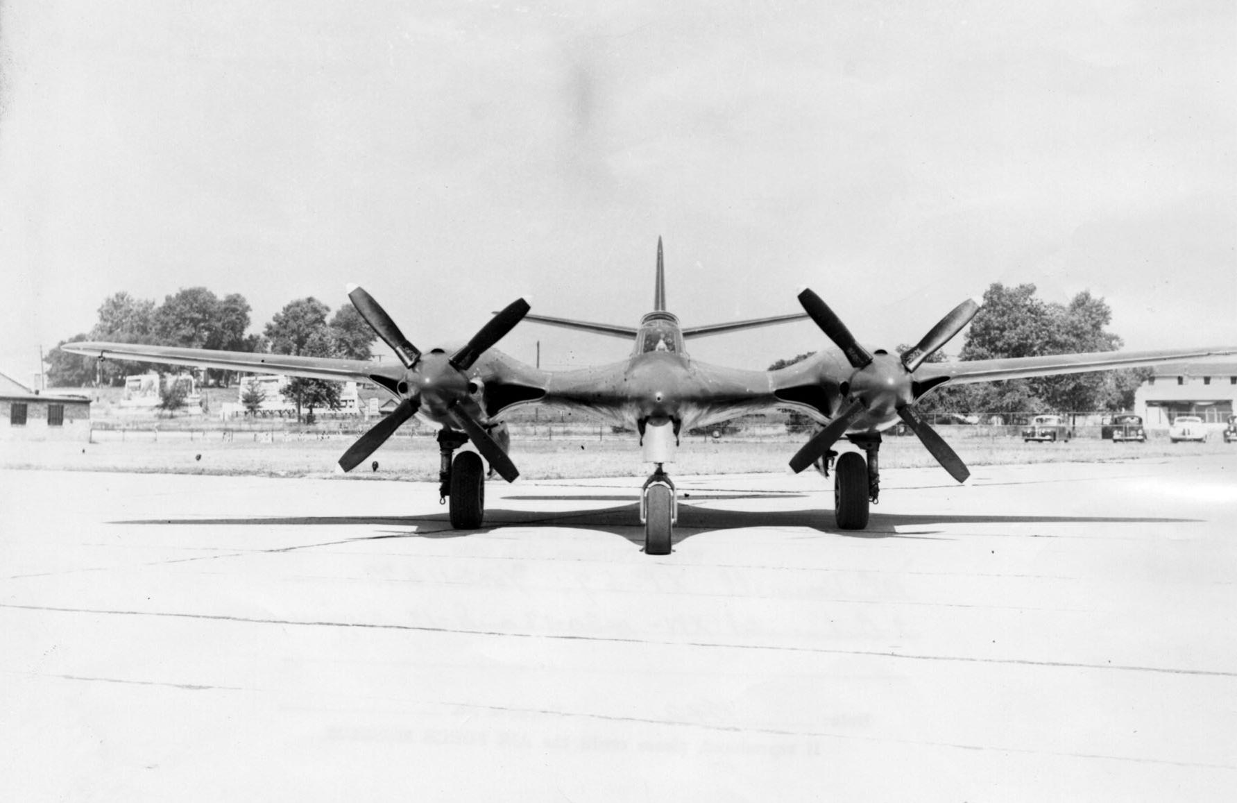 The experimental U.S. Army Air Forces McDonnell XP-67 Bat (s/n 42-11677). This aircraft was damaged beyond repair by a midair fire in September 1944.